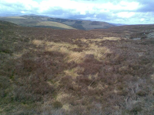 The source of the River Conwy, above Llyn Conwy, North Wales.